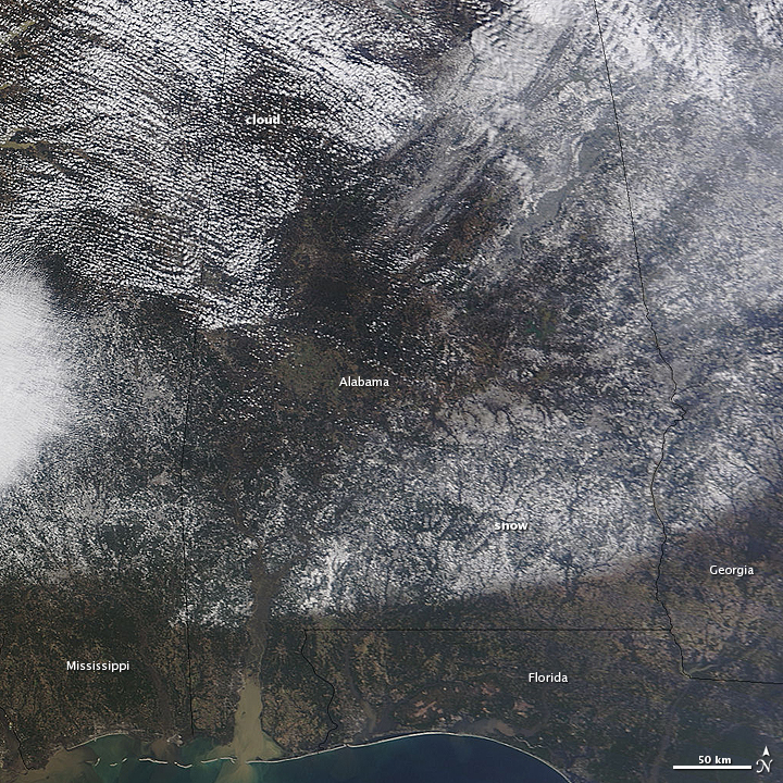 A swath of snow covered parts of the Deep South on the morning of February 13, 2010. A storm moved from Texas across the southern United States to the Atlantic Ocean on February 12-13. By the time the Moderate Resolution Imaging Spectroradiometer (MODIS) on NASA’s Terra satellite passed over at 12:10 p.m., Eastern Time, the clouds over Alabama had cleared enough to reveal a strip of snow in the storm’s path. As much as six to fifteen inches of snow fell in the South, reported CNN.